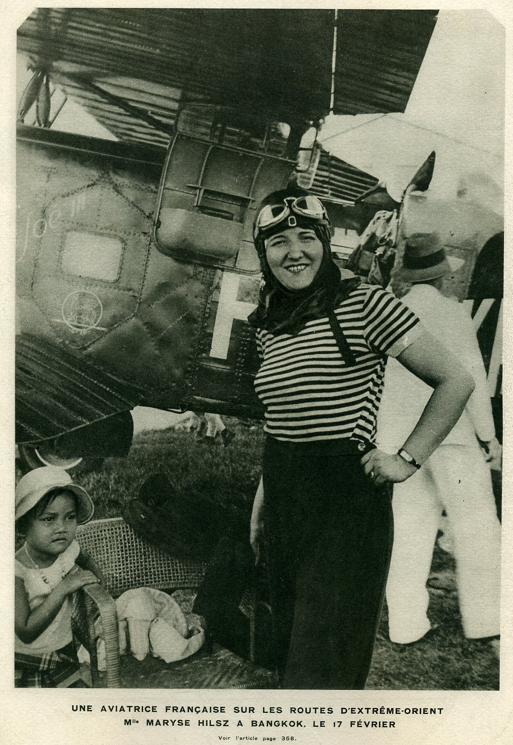 translation of original text: "A French [female] pilot on the routes of the Far East. Miss Maryse Hilsz in Bangkok on February 17." The female pilot Marie-Antoinette "Maryse" Hilsz is standing in front of the plane "Joé III". Alongside is standing a local girl.